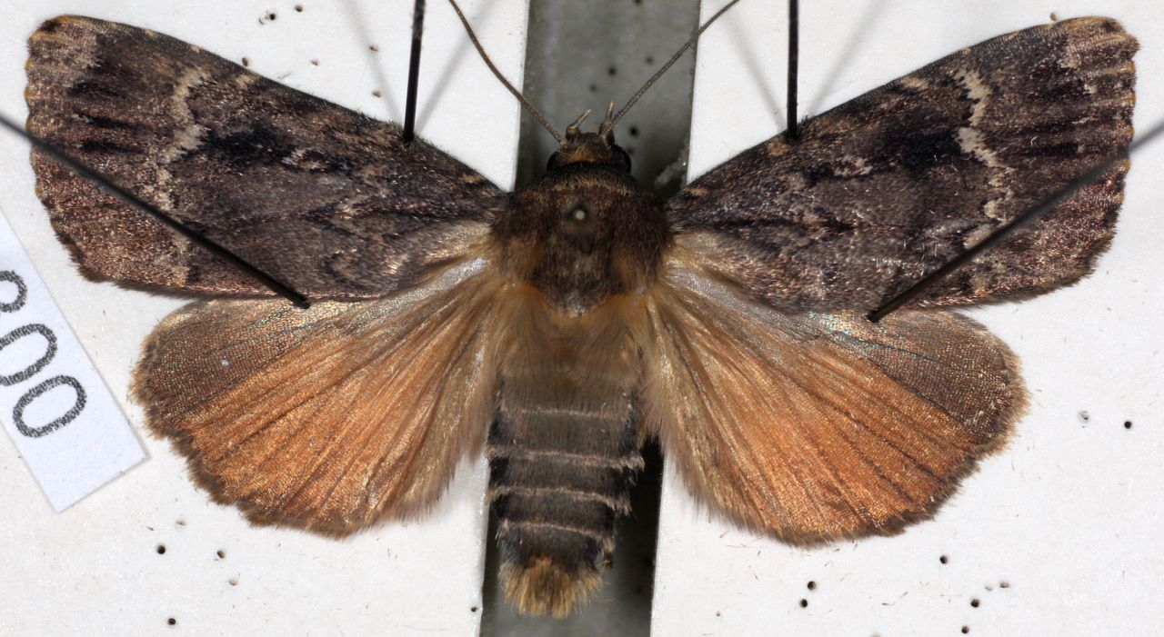 Copper Underwing's hindwings are a rich bright copper colour.